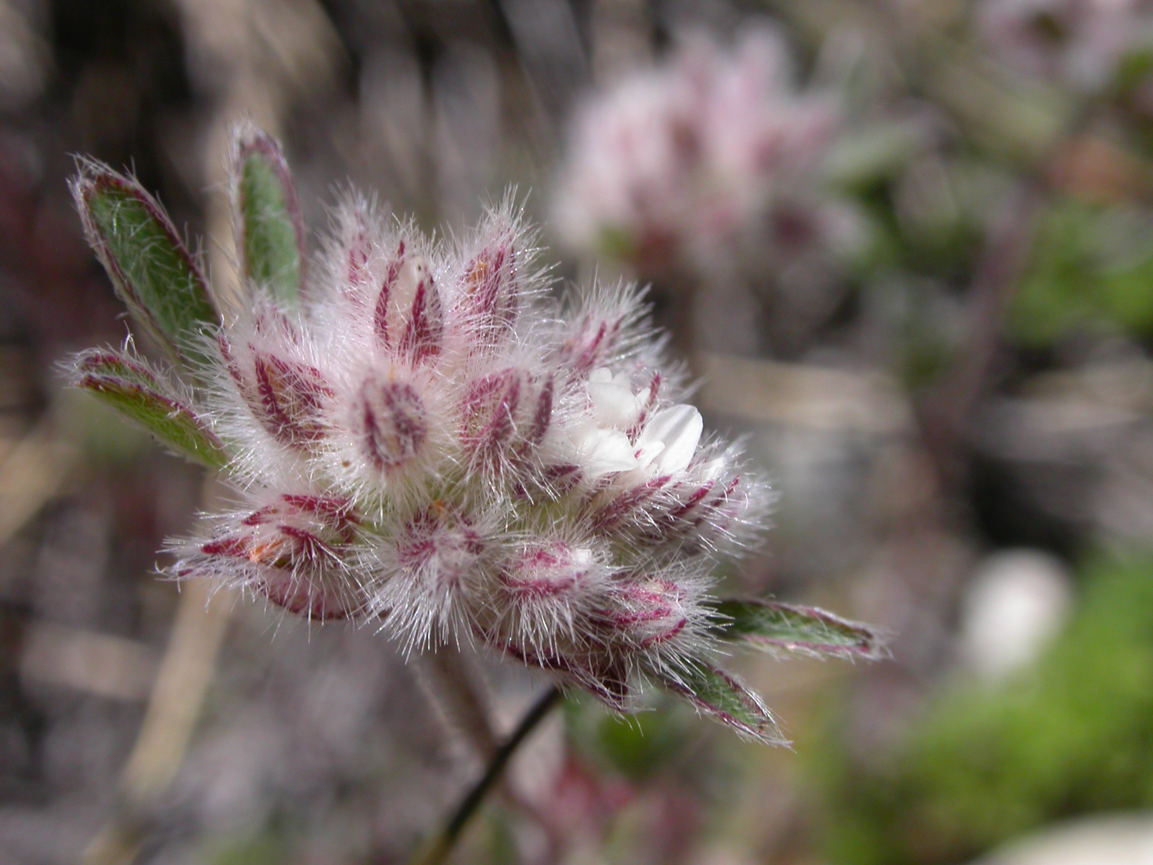 Trifolium saxatile Zermatt, beneath Gornergrat(Kanton Wallis, Switzerland), 2800 m Author: Barbara Studer – own photograph Date: 2.08.06